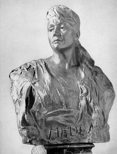 Mari Jászai, shown at the Exposition Universelle (1900) in Paris. (Charles Ponsonailhe: La Sculpture étrangère à la décennale in L'Exposition de Paris, 1900, Paris, Montgrédien Ed., S. 259)